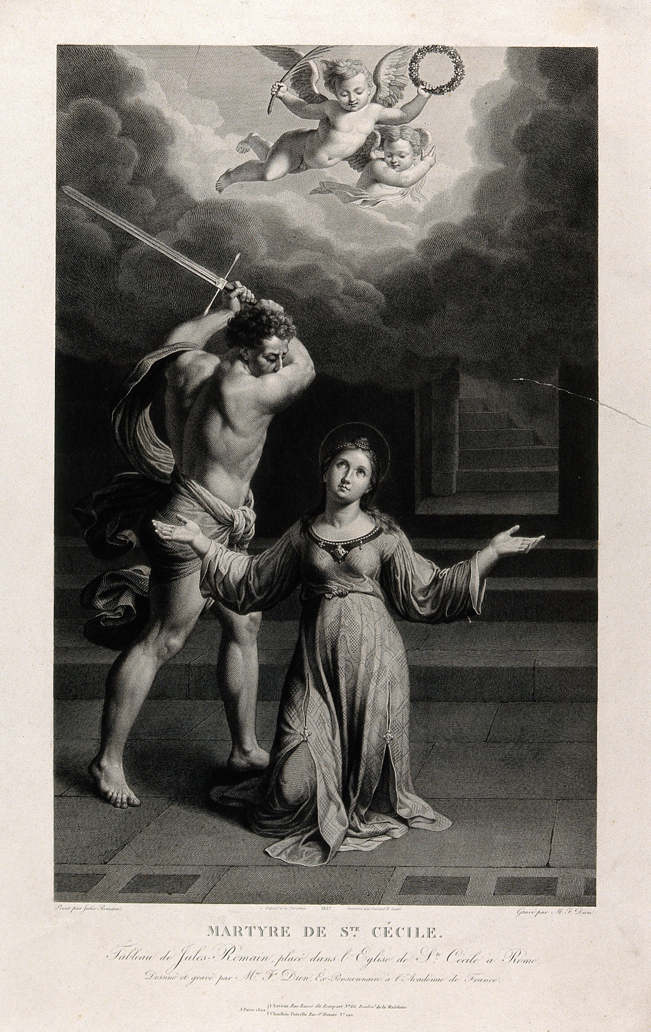 Saint Cecilia. Engraving by C.M.F. Dien, 1827, after Giulio Romano. Iconographic Collections